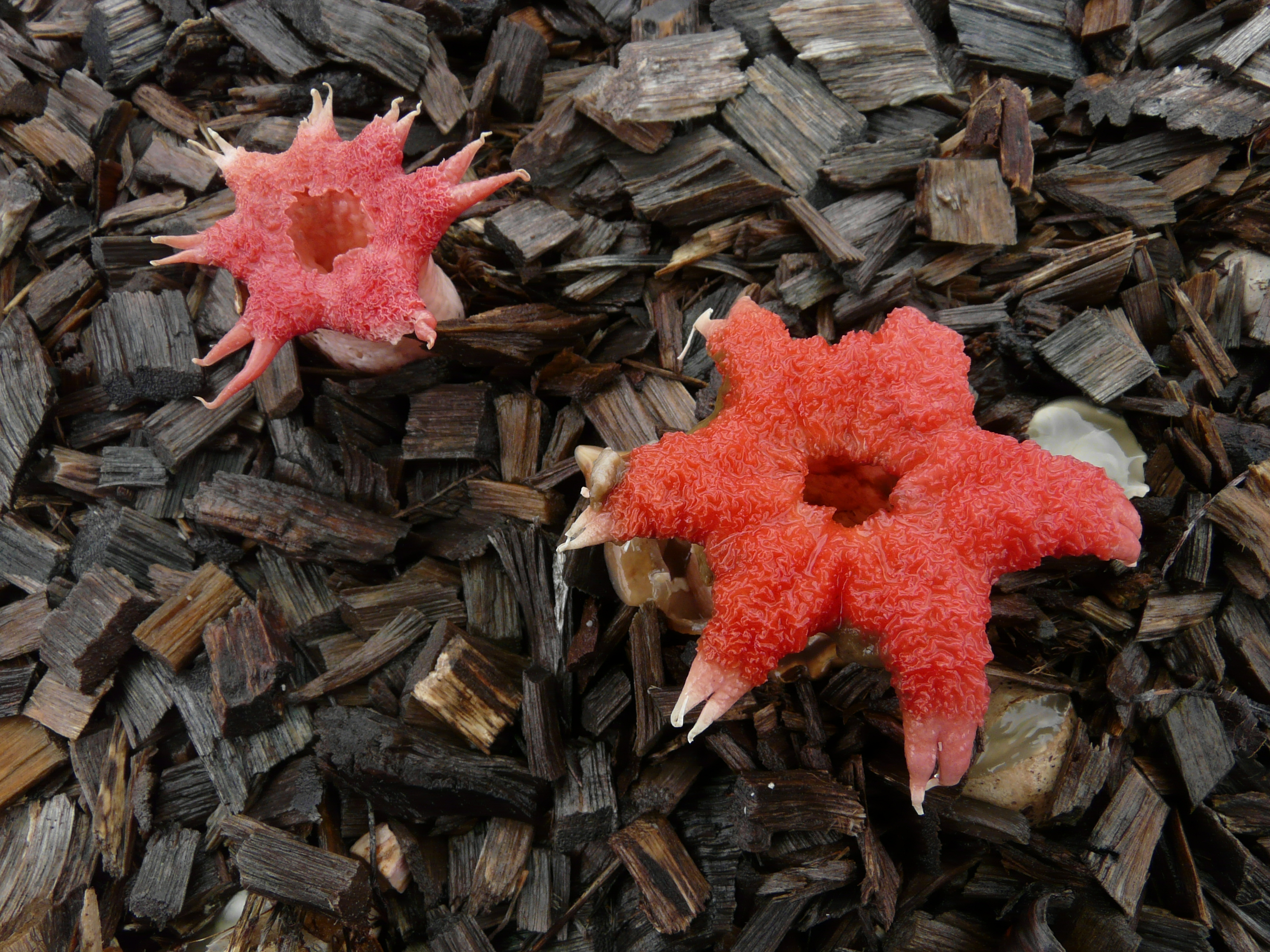 Stinkhorn (Aseroë rubra) in the camping ground at Springbrook, Queensland. Note: The lack of the brown spores may be a result of recent heavy rain, or may simply not have yet appeared.